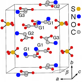 Crystal structure of triglycine sulfate (TGS). Along the b-axis, the G1-SO4 and G2-G3 layers are stacked alternately. The nearest two neighboring layers with identical chemical composition are rotated 180° around the b-axis against each other. Hydrogen atoms are not shown. Subramanian Balakumar and Hua C. Zeng (2000). "Water-assisted reconstruction on ferroelectric domain ends of triglycine sulfate (NH2CH2COOH)3·H2SO4 crystals". J. Mater. Chem. 10: 651-656.